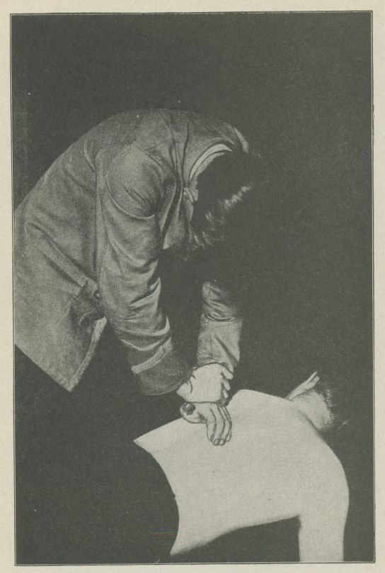 Technic and Practice of Chiropractic published in 1920 by Joy Loban, D.C. Chiropractic spinal adjustment of the back.